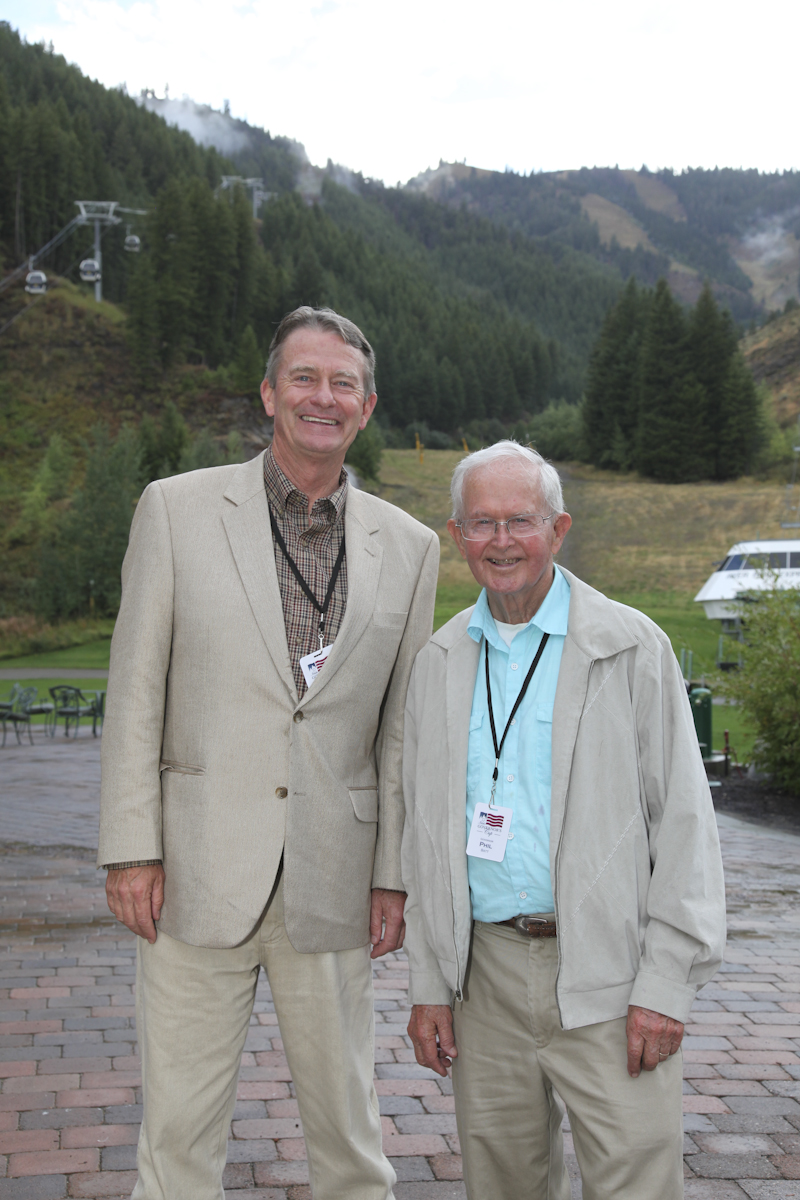 Lt. Governor Little with former Governor Phil Batt.